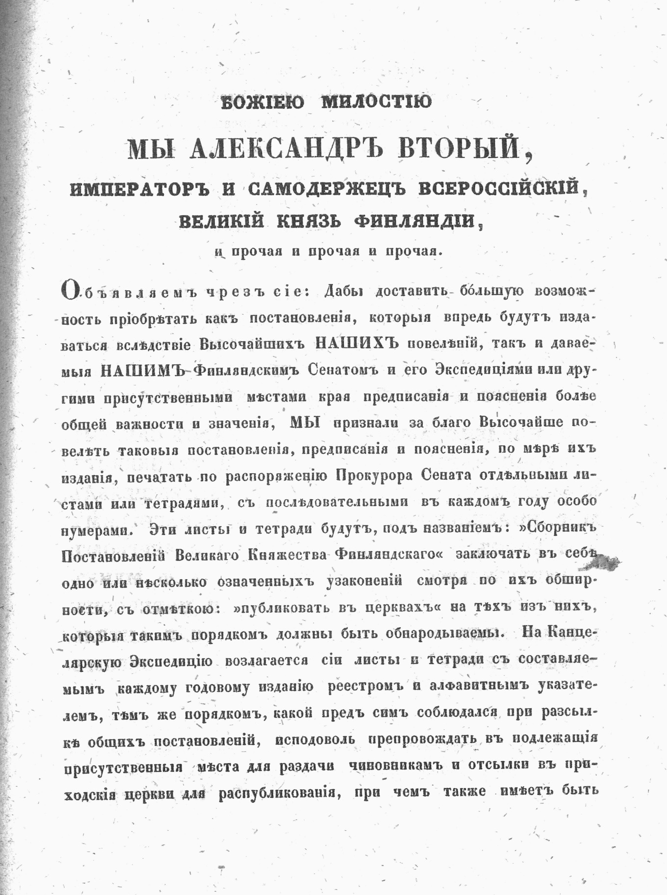 The Russian-language version of the Proclamation (Act) with which the Finnish publication series for legislation (Suomen Asetuskokoelma, Finlands författningssamling) was founded for the Grand Duchy of Finland.